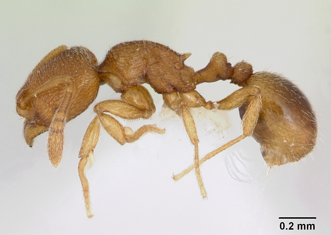 Profile view of ant Rogeria curvipubens specimen casent0173282.